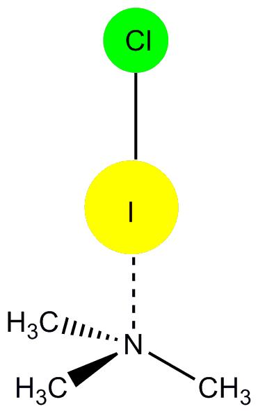 Molecular complex between iodine monochloride and trimethyl amine